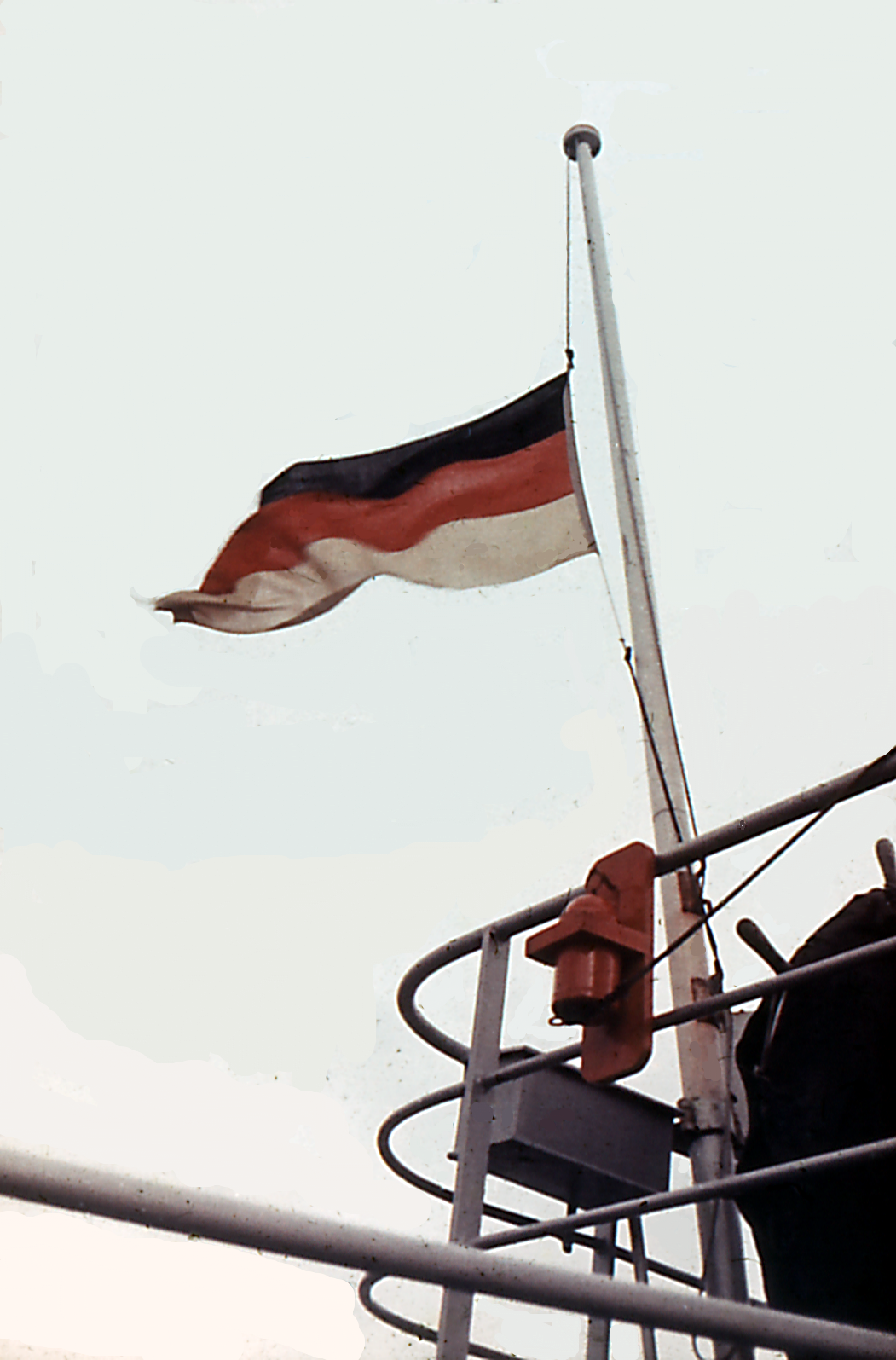 Flag at half mast for SS Pamir in September 1957 on the orders of the Federal Republic of Germany on all German ships